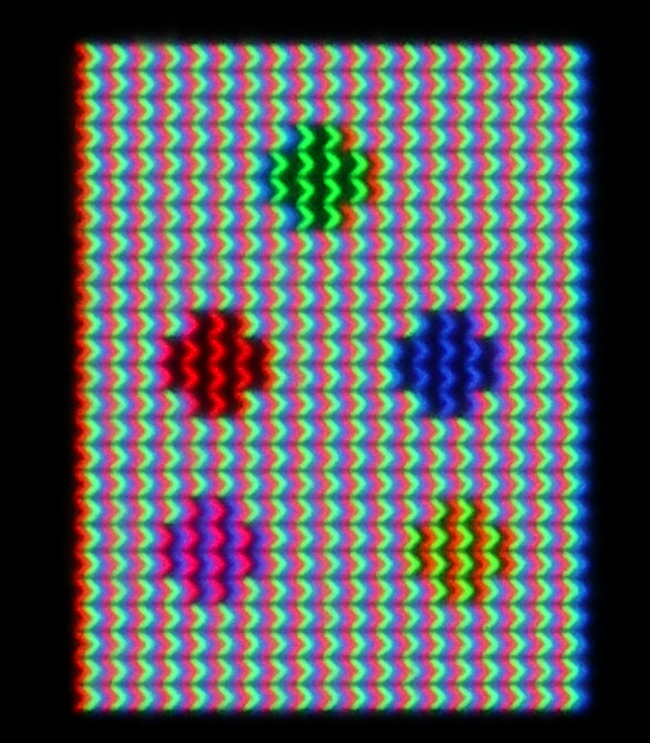 Dell TFT LCD 1905FP